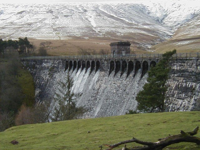 Grwyne Fawr Reservoir dam. Below the snowy NE flanks of Waun Fach, the reservoir is completely full: water is emerging through the spillway arches and running down the dam face.